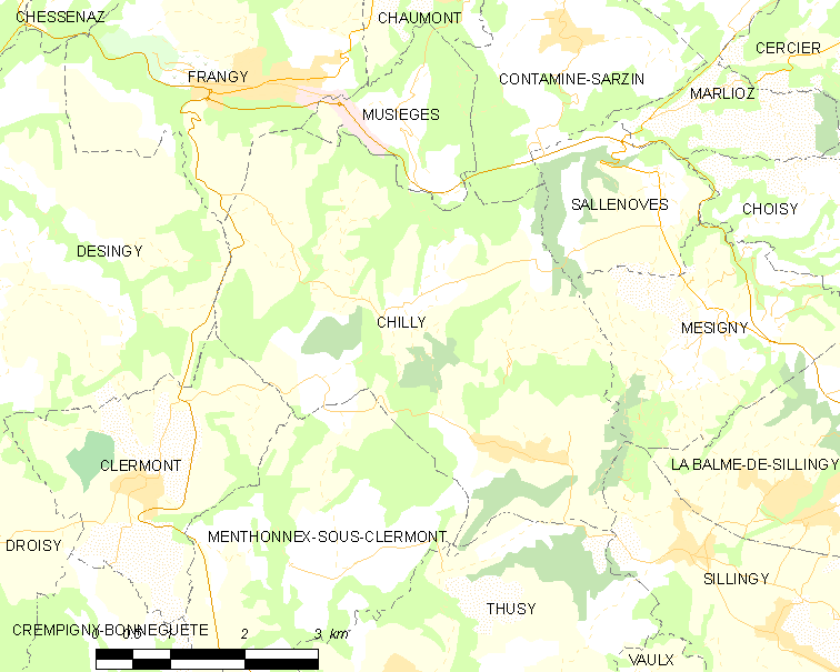 Map of French municipality Chilly